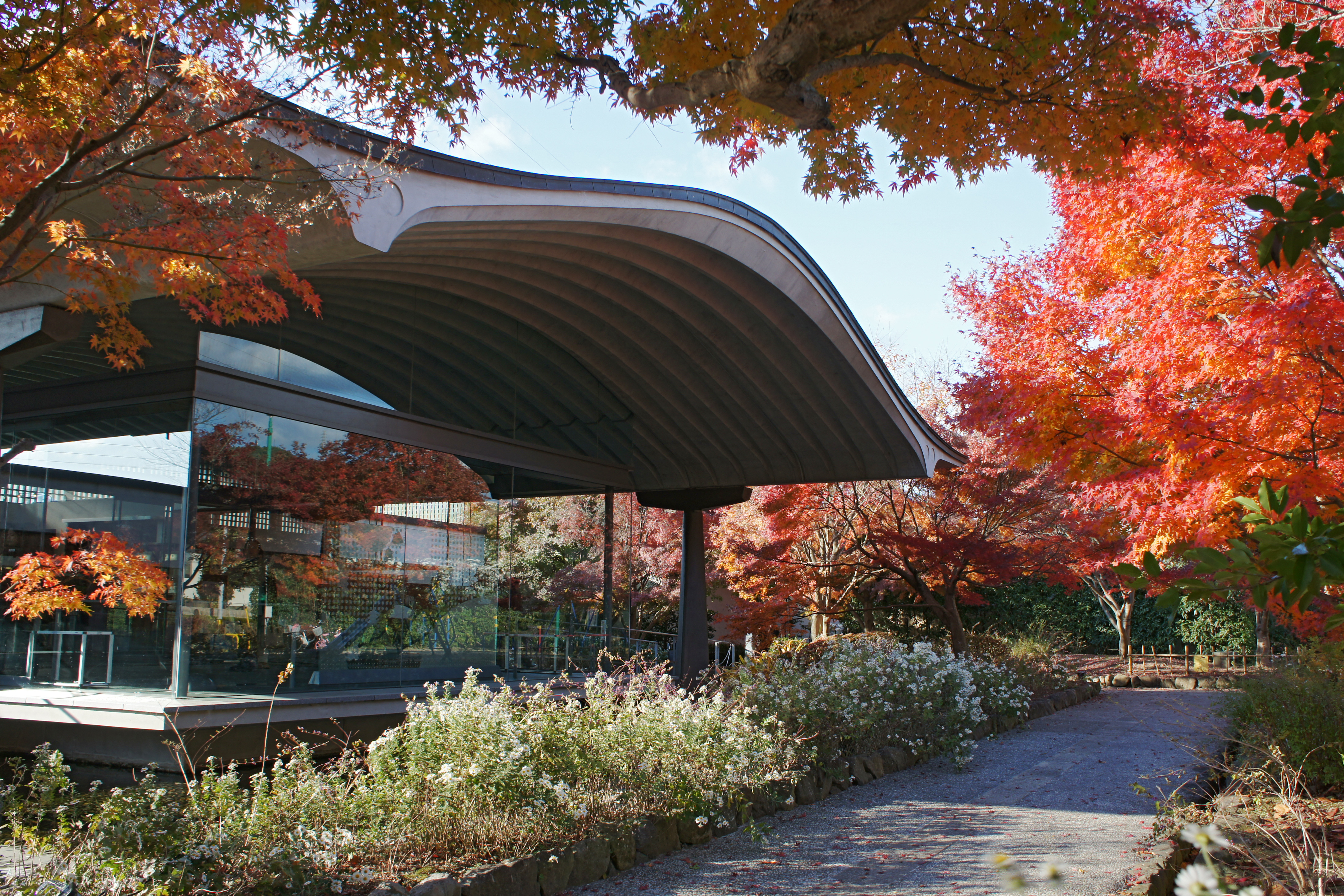 Genji Museum in Uji, Kyoto prefecture, Japan.